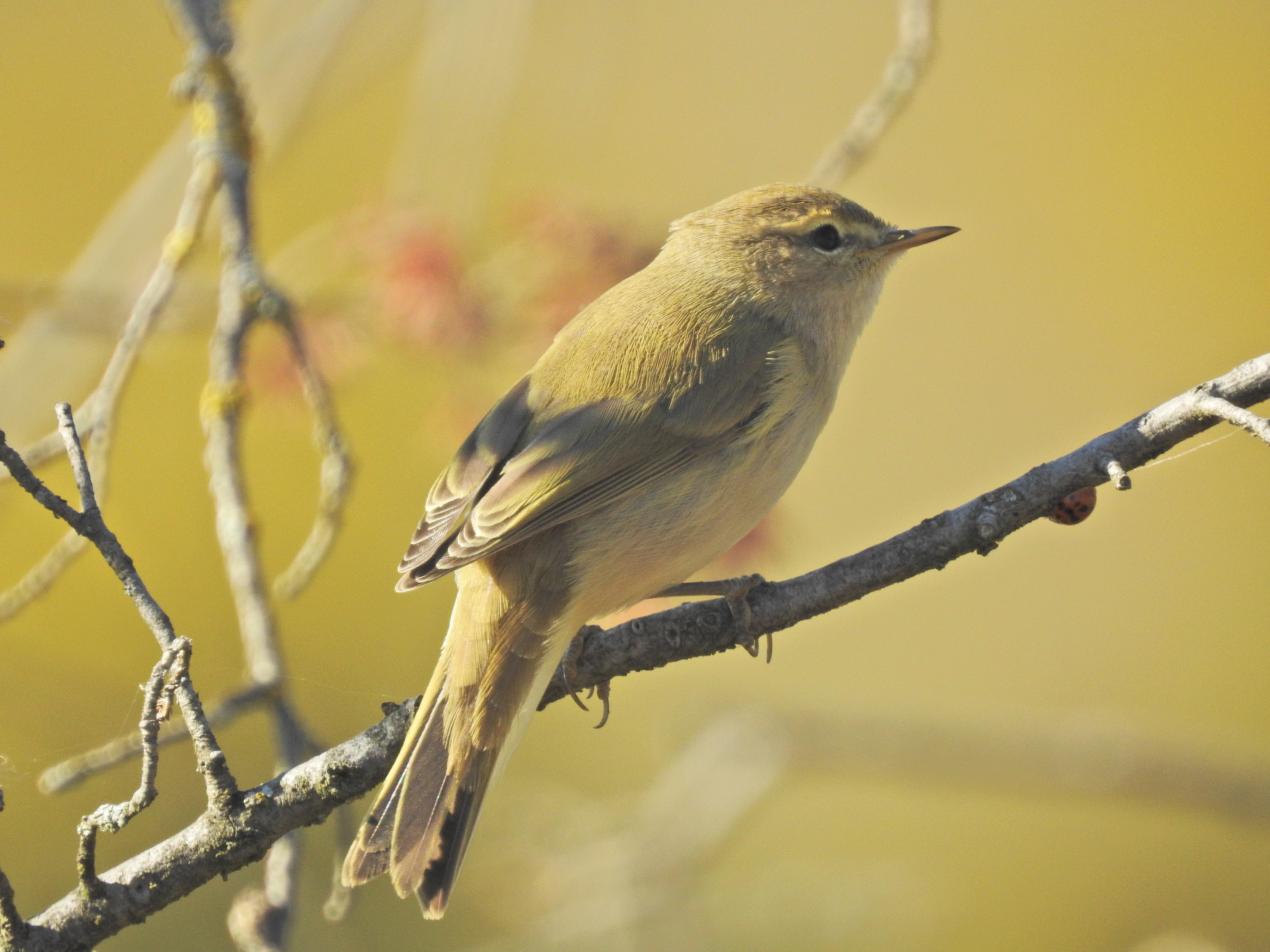 willow warbler Fitis Pitulice fluierătoare